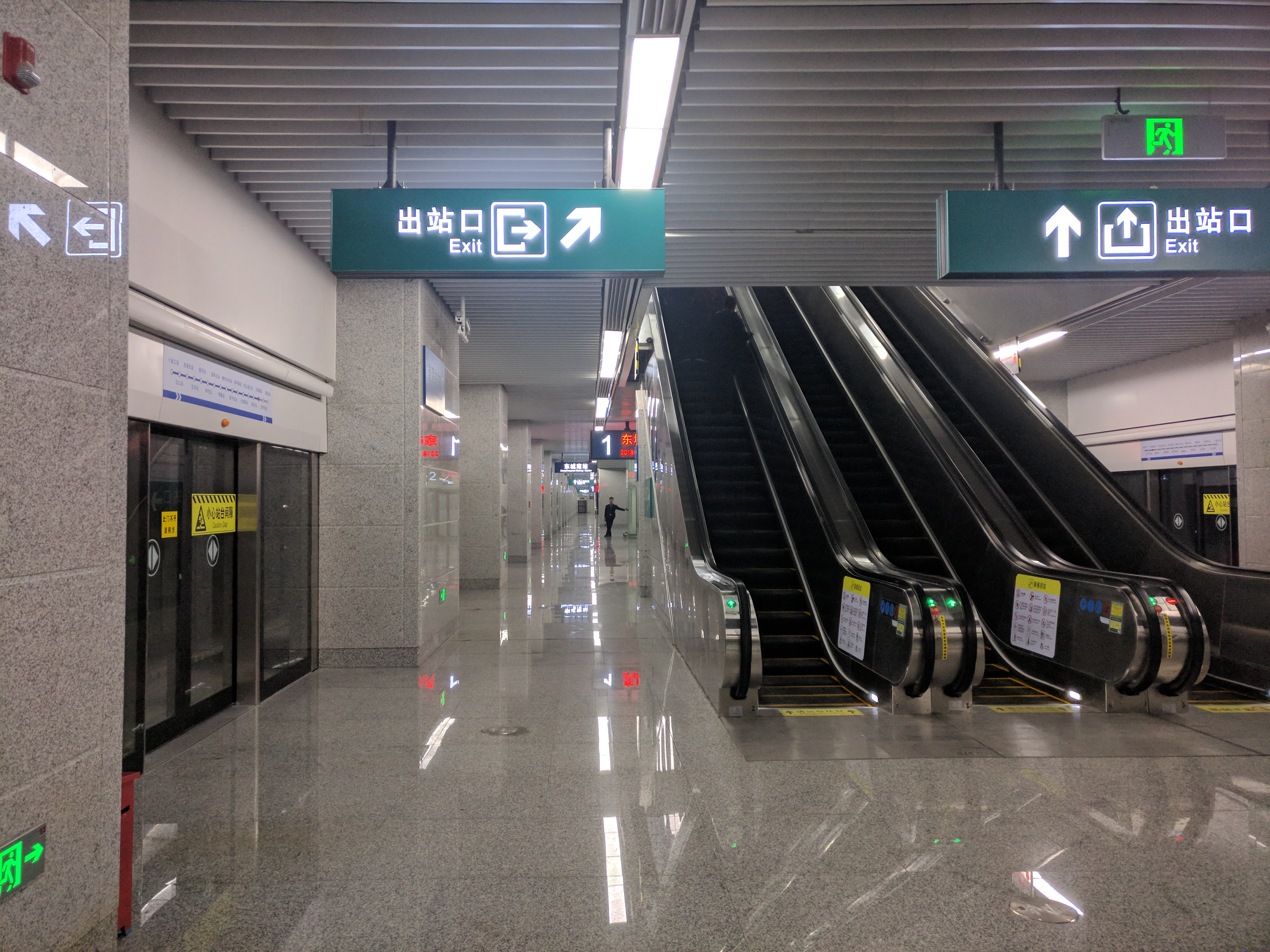 Underground platform in Dongchengnan Railway Station